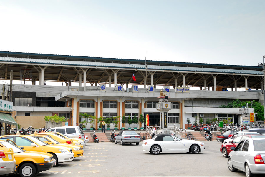 HouLong Station is a local train station of Taiwan's Western main rail line. It's the main station of HouLong Town, Miaoli County. HouLong Station has a elevated platform.